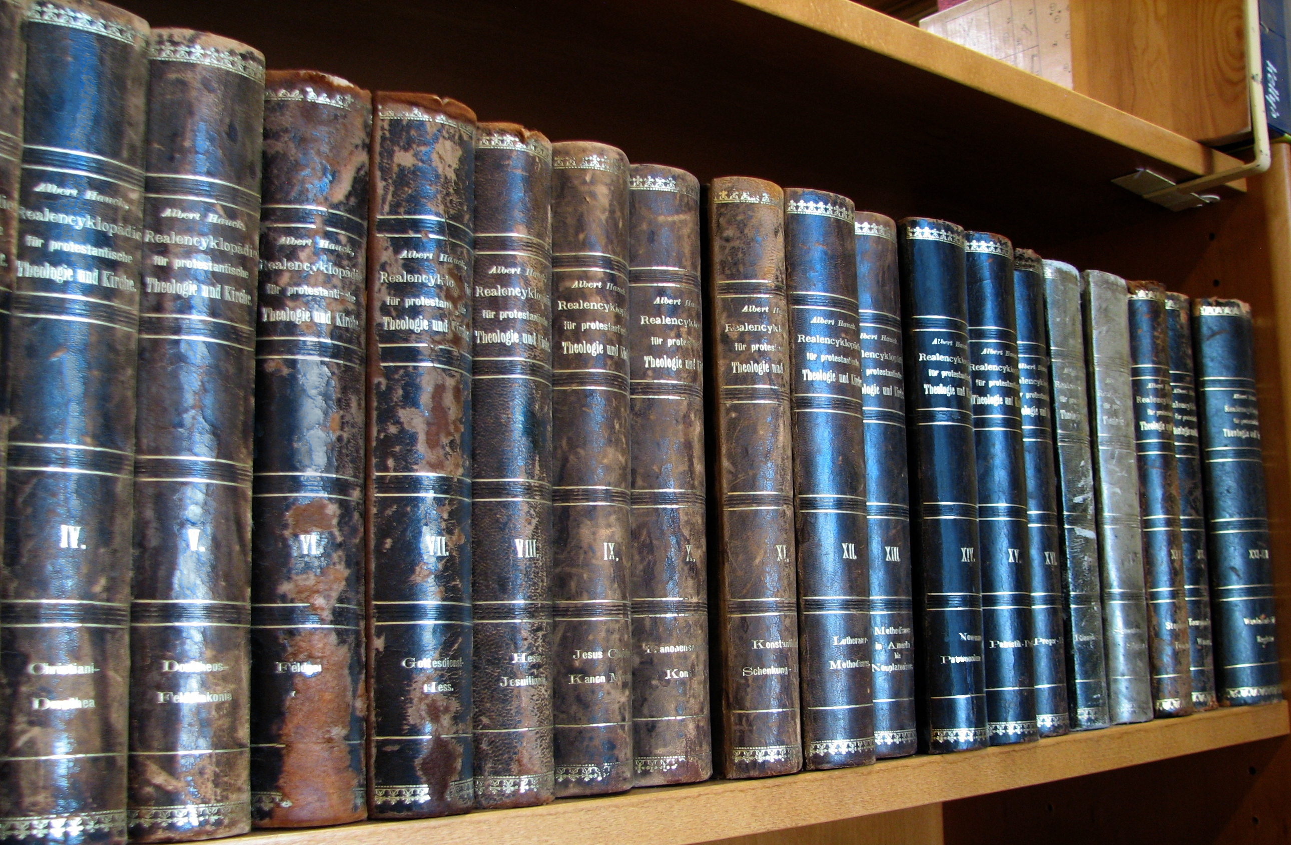 Realenzyklopädie für protestantische Theologie und Kirche. Third edition. Edited by Albert Hauck, Vol. 1–22; 1896–1909.